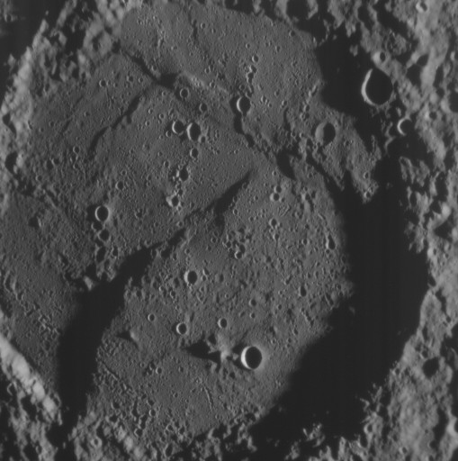 Travers crater on Mercury, at a low sun angle. MESSENGER Narrow Angle Camera. North is at top. Emission Angle: 29.1 Incidence Angle: 86.0 Latitude: -27.9 Longitude: 31.2 Phase Angle: 56.9